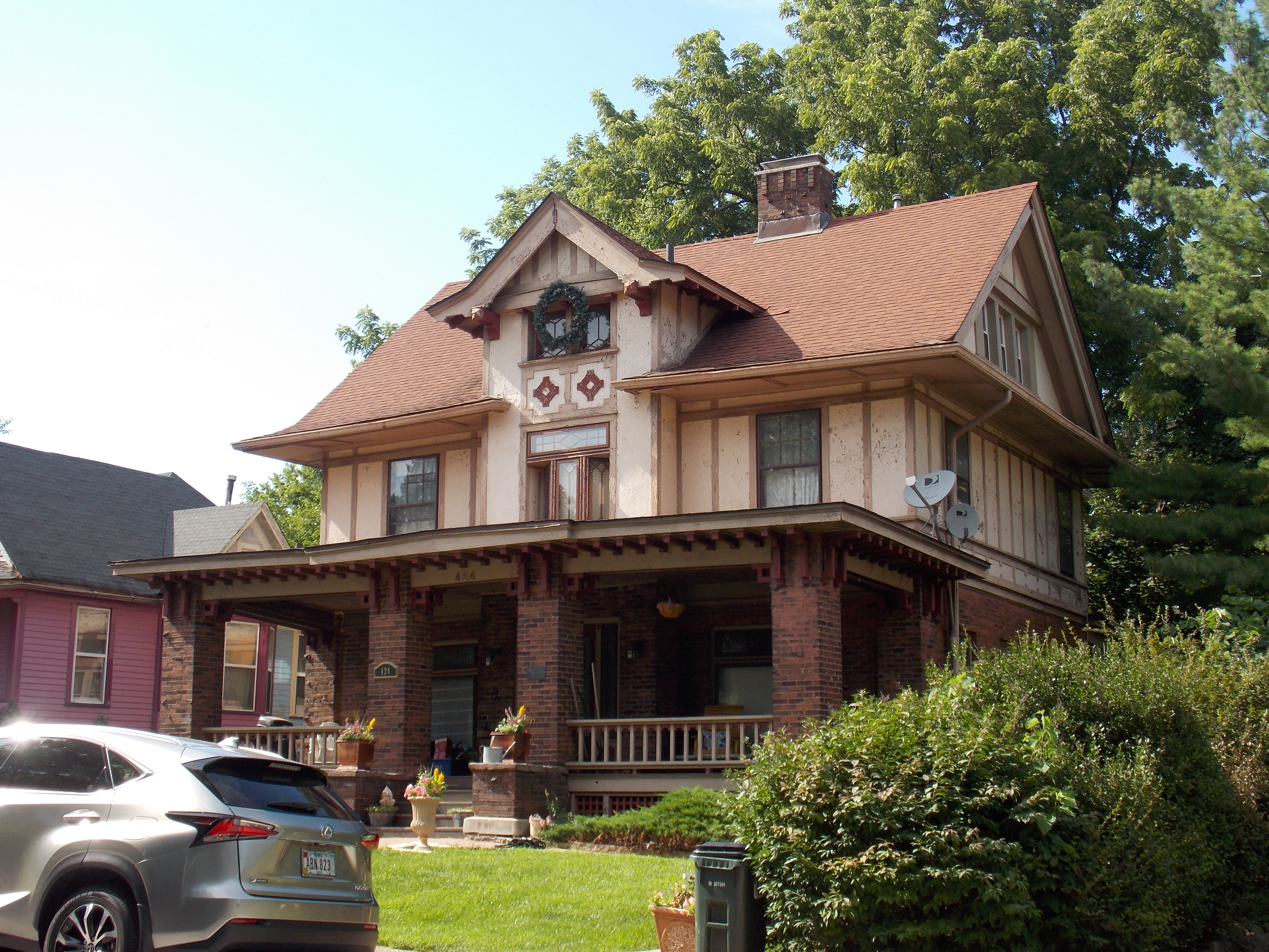 The Deidrich J. Harfst House in Davenport, Iowa is a contributing property in the Hamburg Historic District.